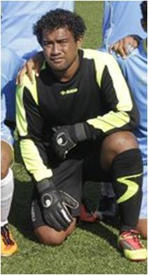 Jelly_Selau